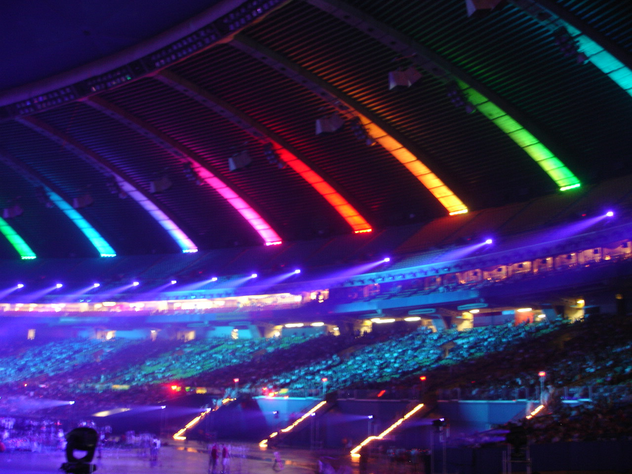 Lights at the Olympic Stadium in Montreal for the Outgames opening ceremonies. Picture taken Saturday, July 29th, 2006. Please, if you use this image for other media/site, be kind and mention : Picture by Jean Simard ©JITMP(John in the mix Productions)Montréal.